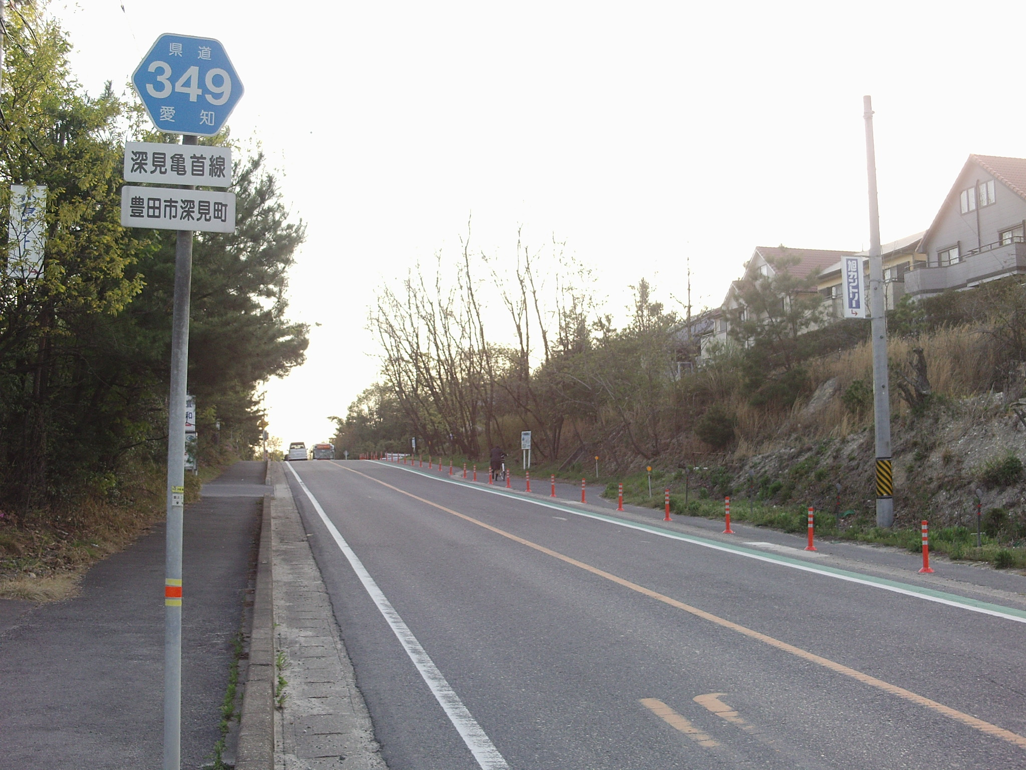 Aichi prefectural road No.349 in Fukamicho, Toyota, Aichi.